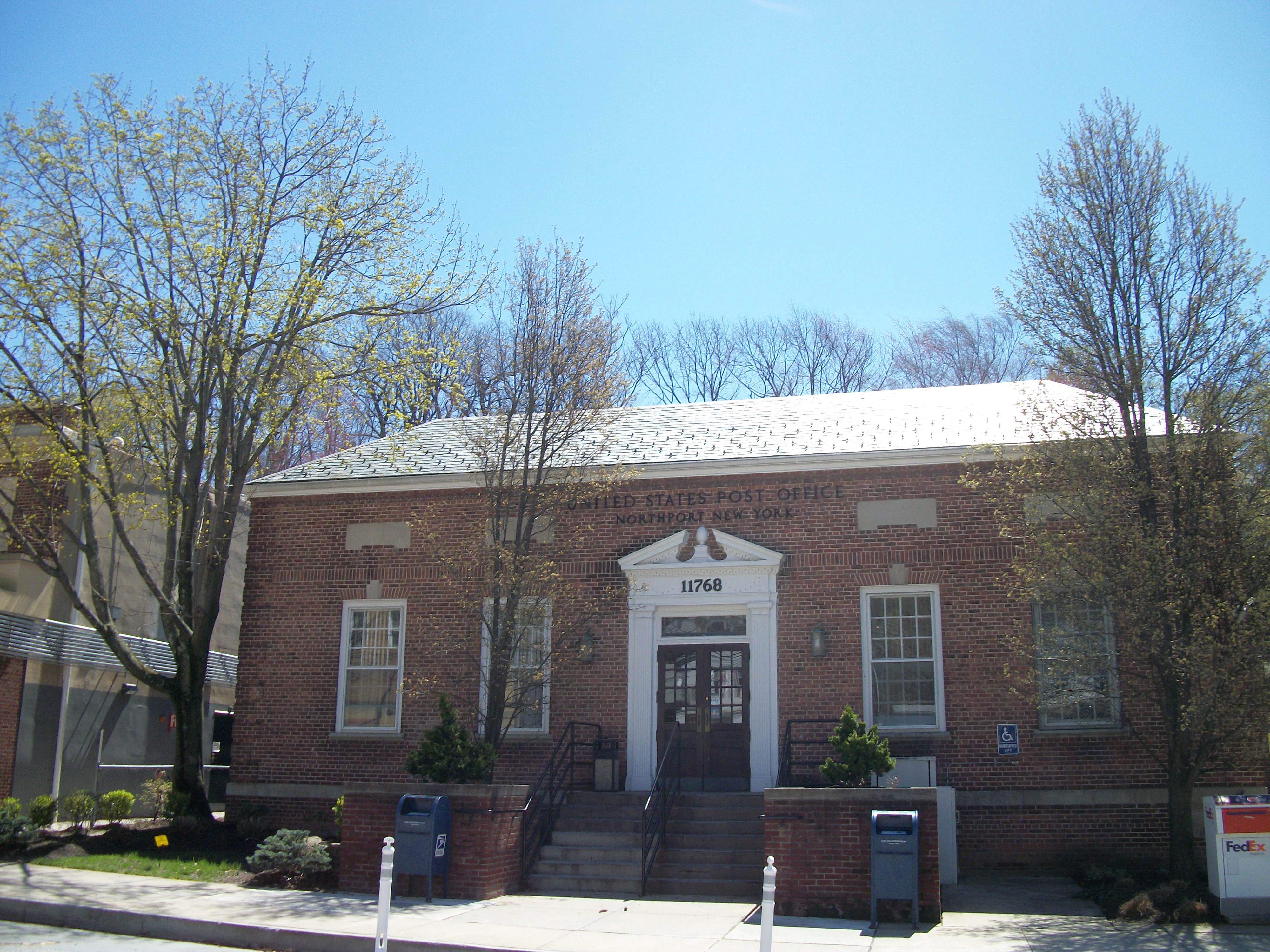 The historic United States Post Office building in Northport, New York.